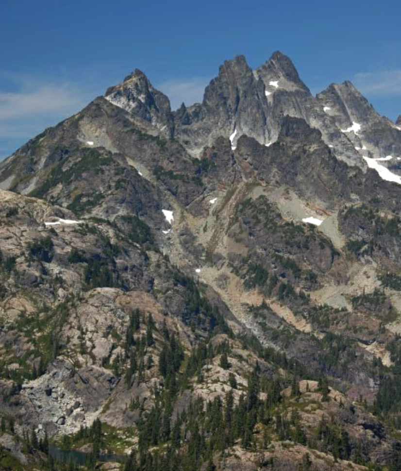 Lemah Mountain, Alpine Lakes Wilderness